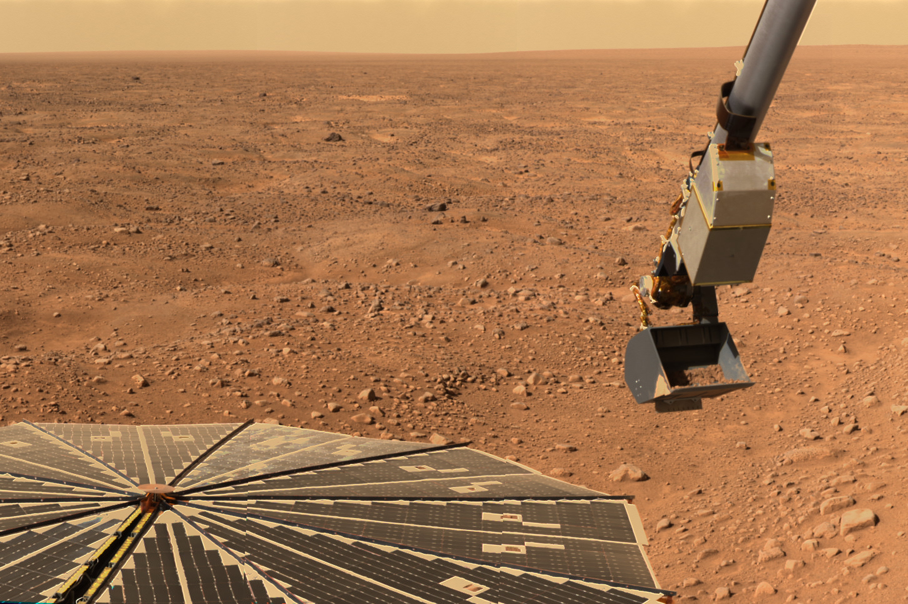 This image shows NASA's Phoenix Mars Lander's solar panel and the lander's Robotic Arm with a sample in the scoop. The image was taken by the lander's Surface Stereo Imager looking west during Phoenix's Sol 16 (June 10, 2008), or the 16th Martian day after landing. The image was taken just before the sample was delivered to the Optical Microscope. This view is a part of the "mission success" panorama that will show the whole landing site in color.